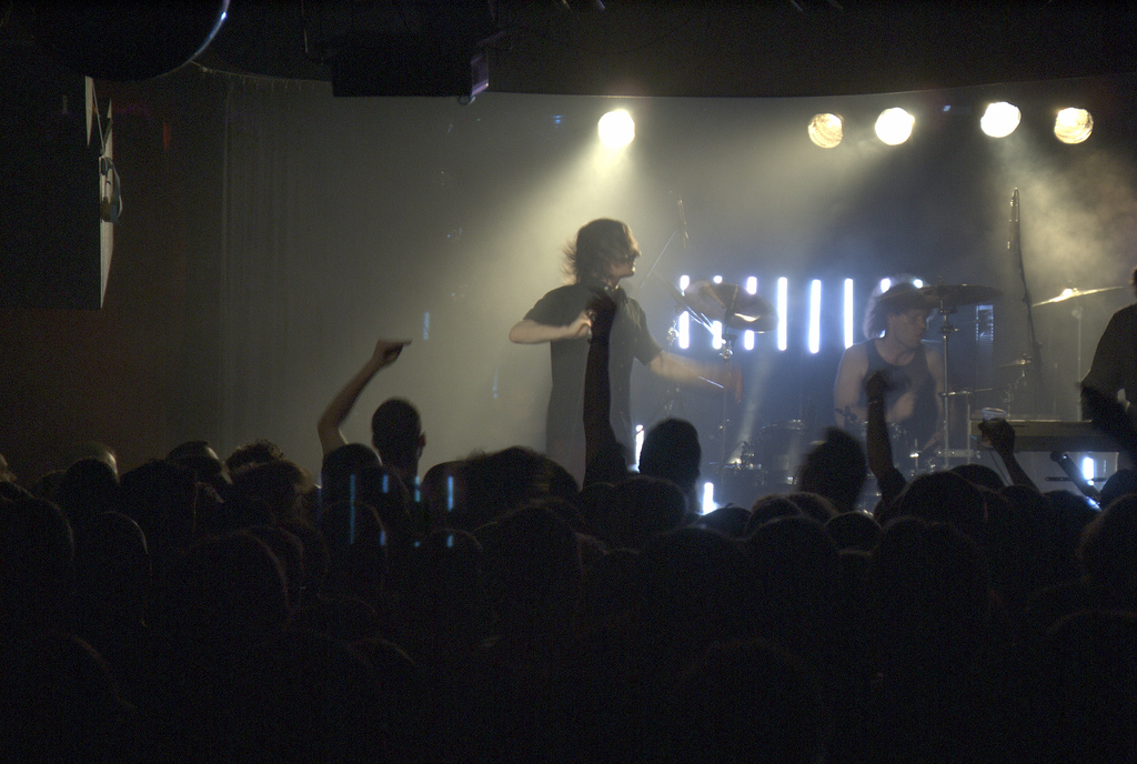 The Young Gods